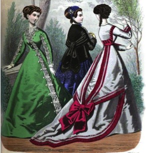 Train formed from Dress.